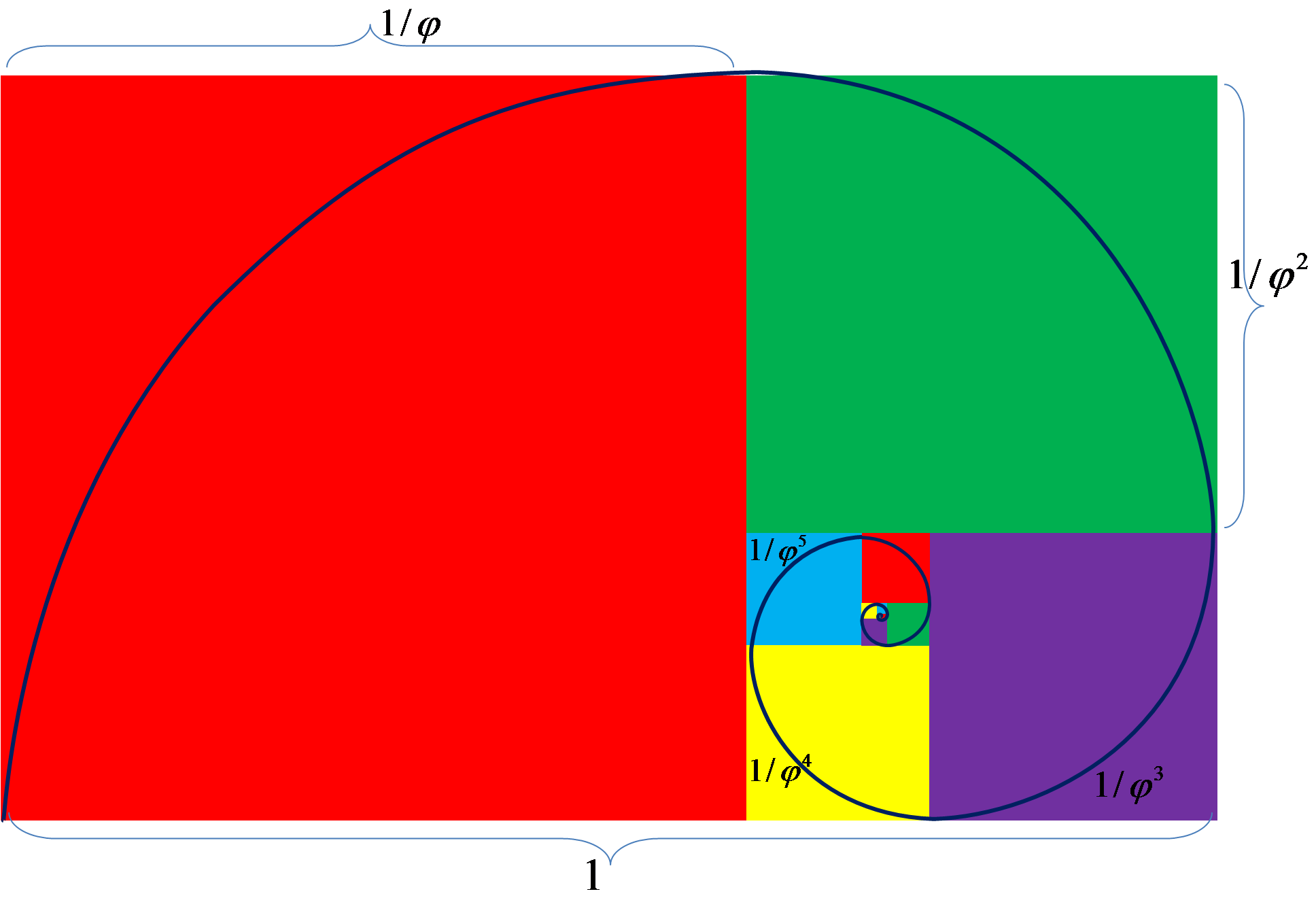 Golder ratio spiral.